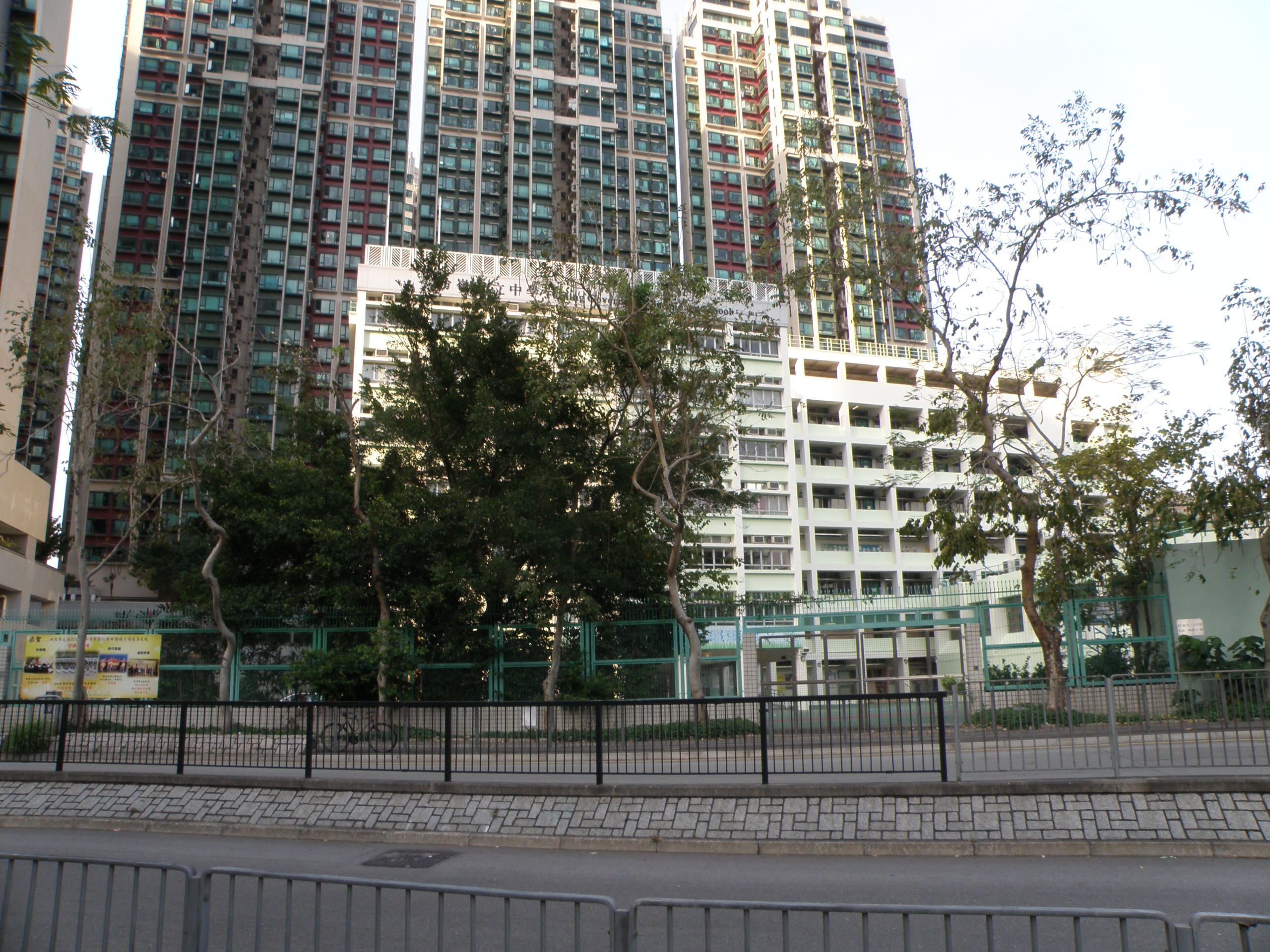 Fanling Government Secondary School in Fanling, Hong Kong.